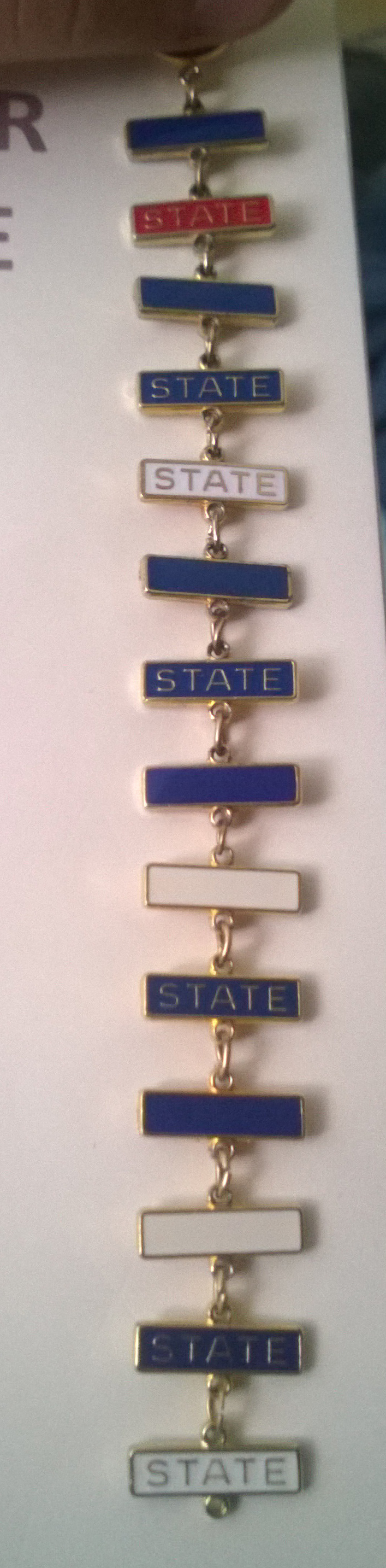 Liam Chambers' PJAS bars after his 5 years of participation in PJAS from 8th-12th grade.